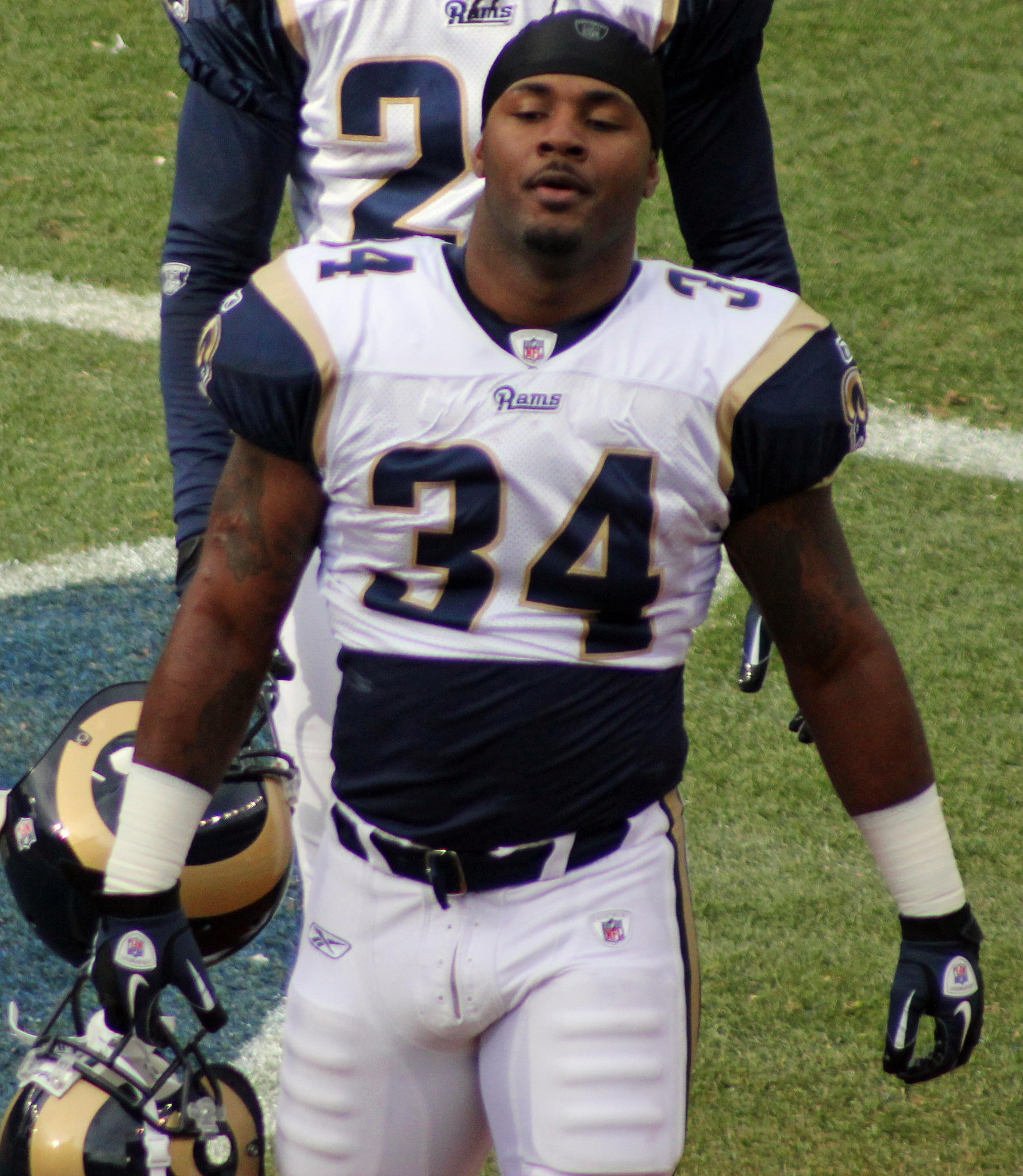 Kenneth Darby, a player on the Saint Louis Rams American football team.